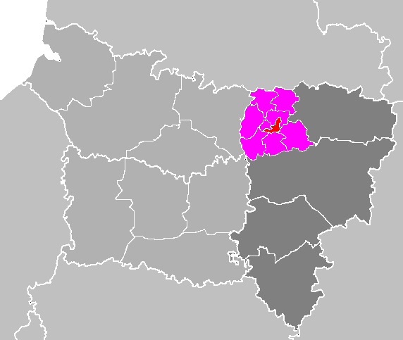 Maps of arrondissements and cantons of France